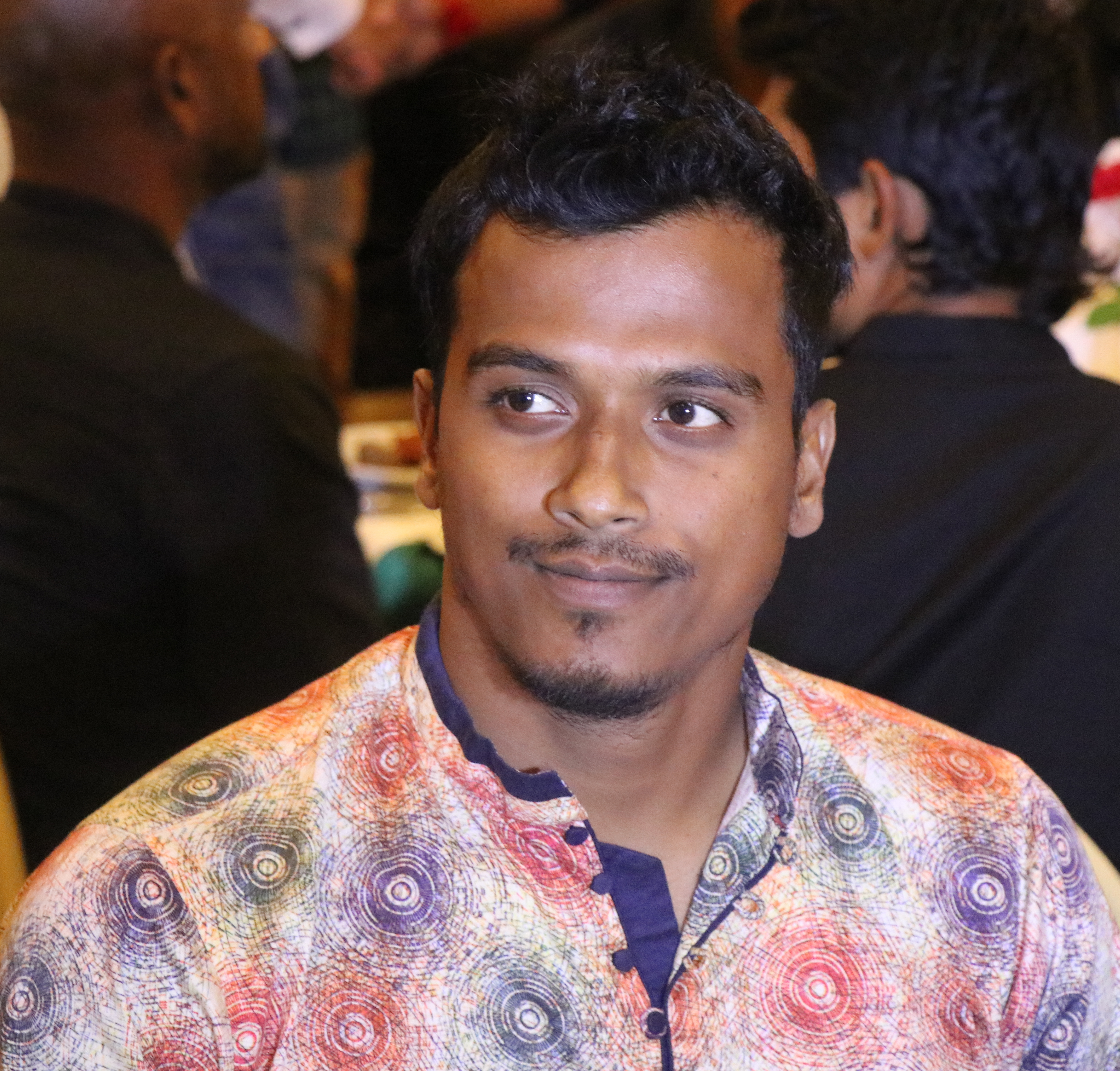 Rubel Hossain, Bangladesh National Cricket team player